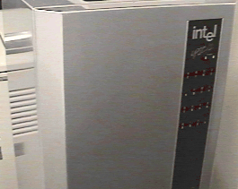 Intel iPSC 2 16-node parallel computer front panel.